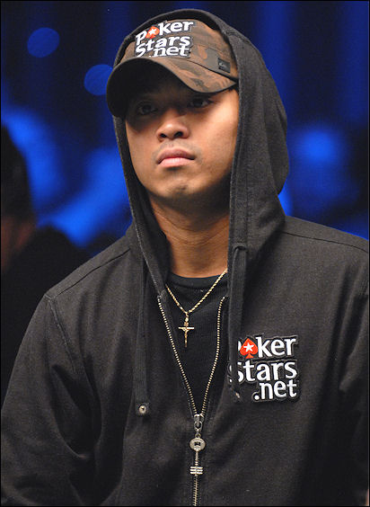 Theo Tran during the 2008 WSOP